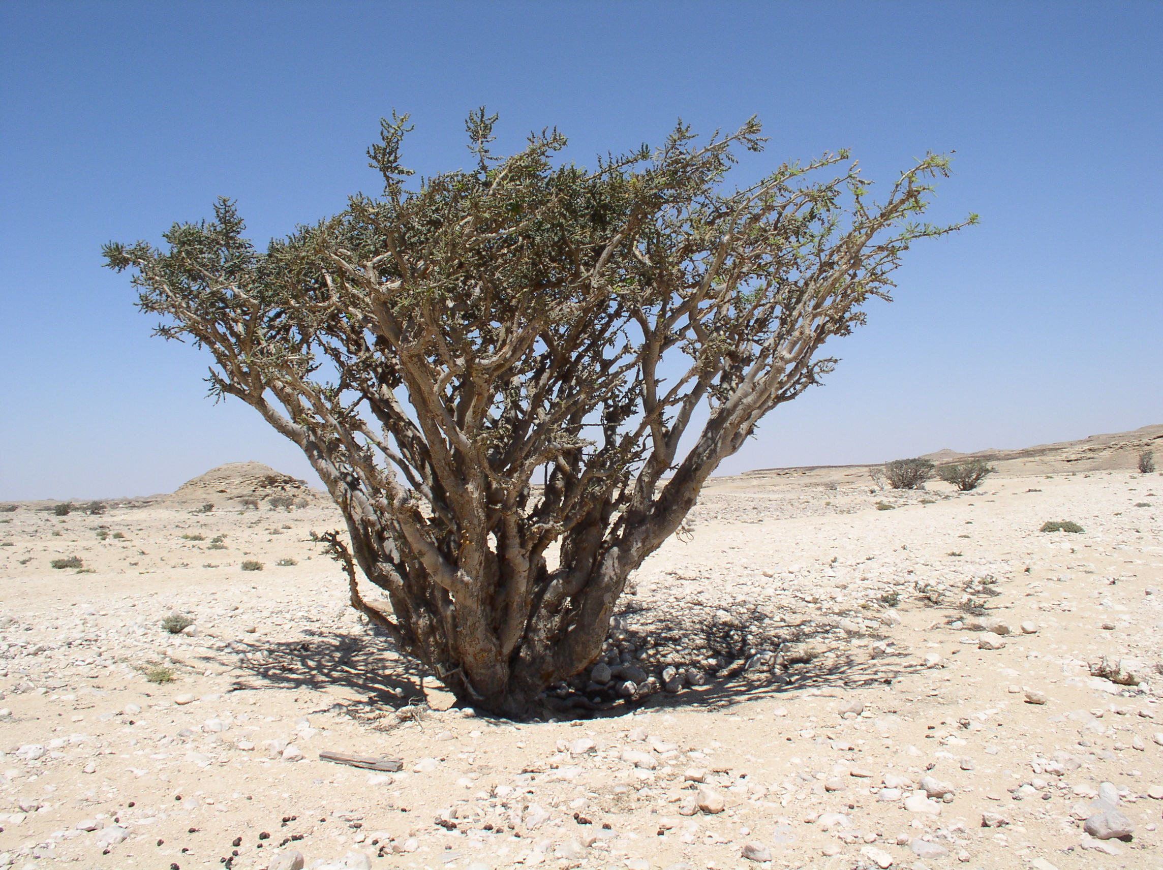 A frankincense tree (Boswellia sacra) at Wadi Dowkah Natural Park (Dhofar, Oman).